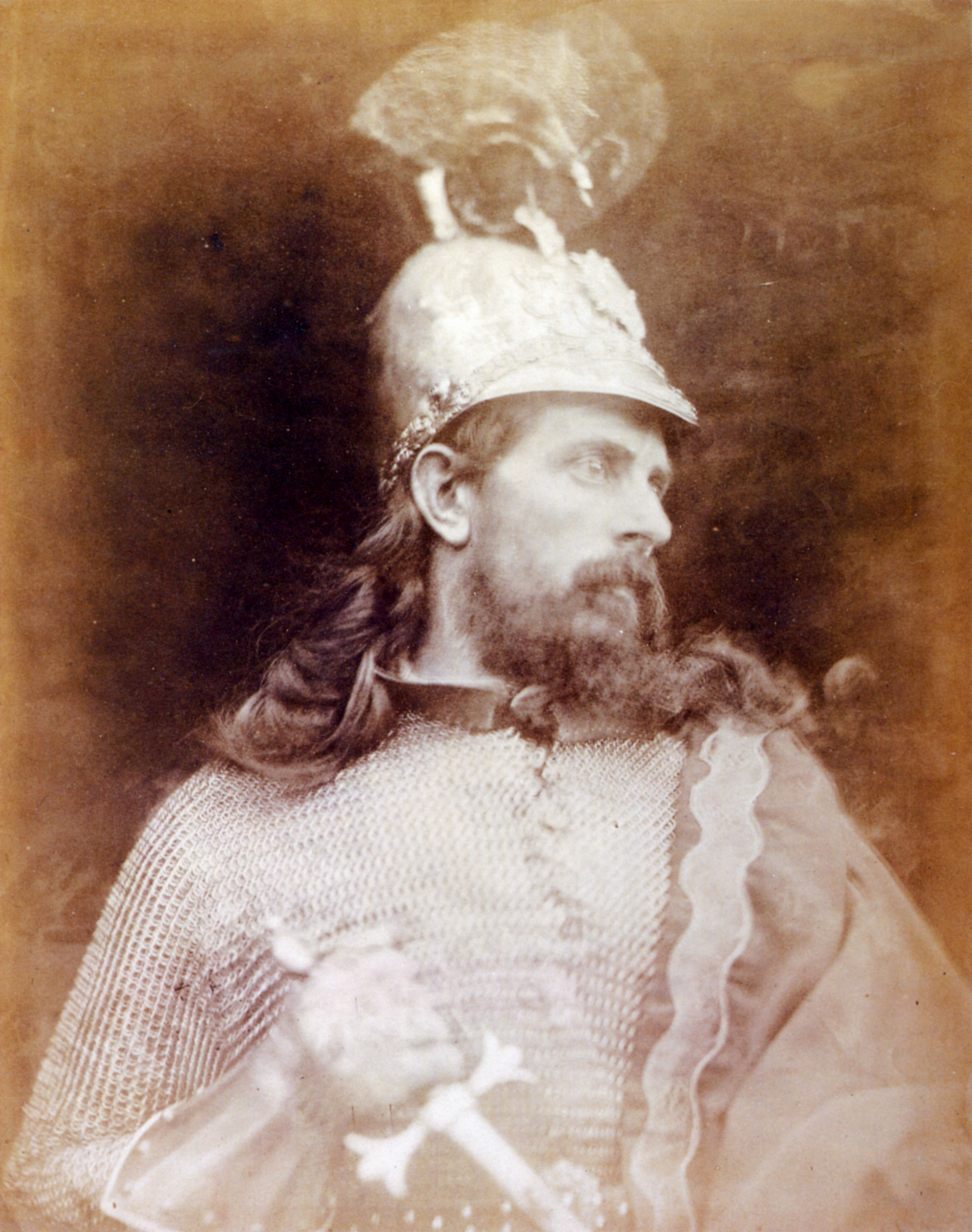 King Arthur (Illustration to Tennyson's Idylls of the King and Other Poems). Sitter is William Warder. Albumen print, 358 x 280mm, (14 1/8 x 11").